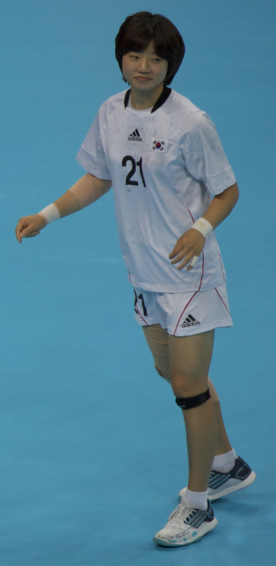 South Korea vs. Spain